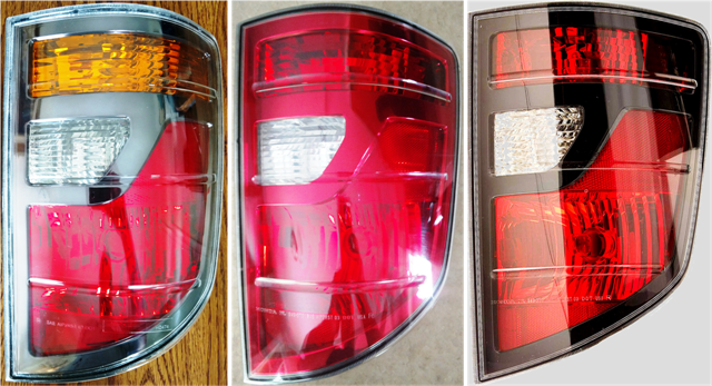 First generation Honda Ridgeline taillights (from left to right: 2006–2008, 2009–2011, and 2012–2014)